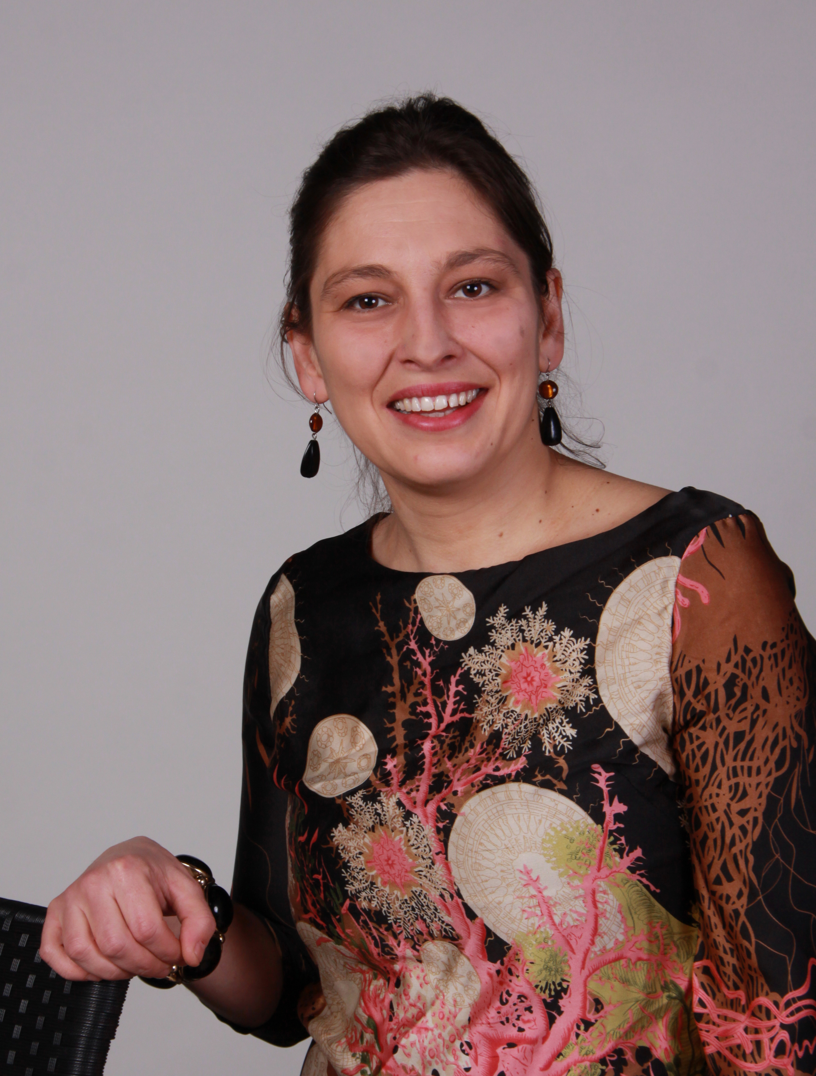 Livia Jaroka, Member of the European Parliament